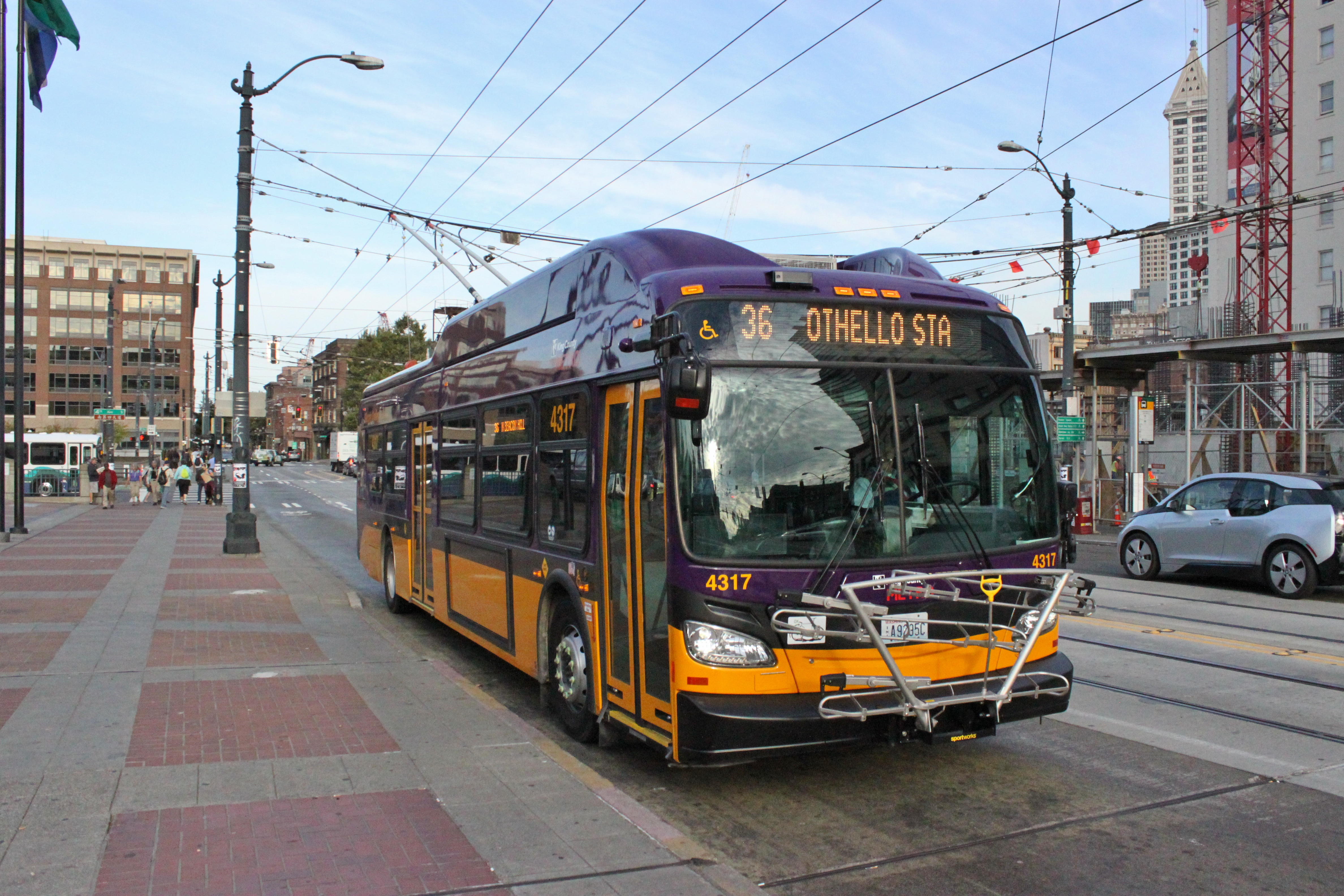 2014 New Flyer XT40 on King County Metro route 36